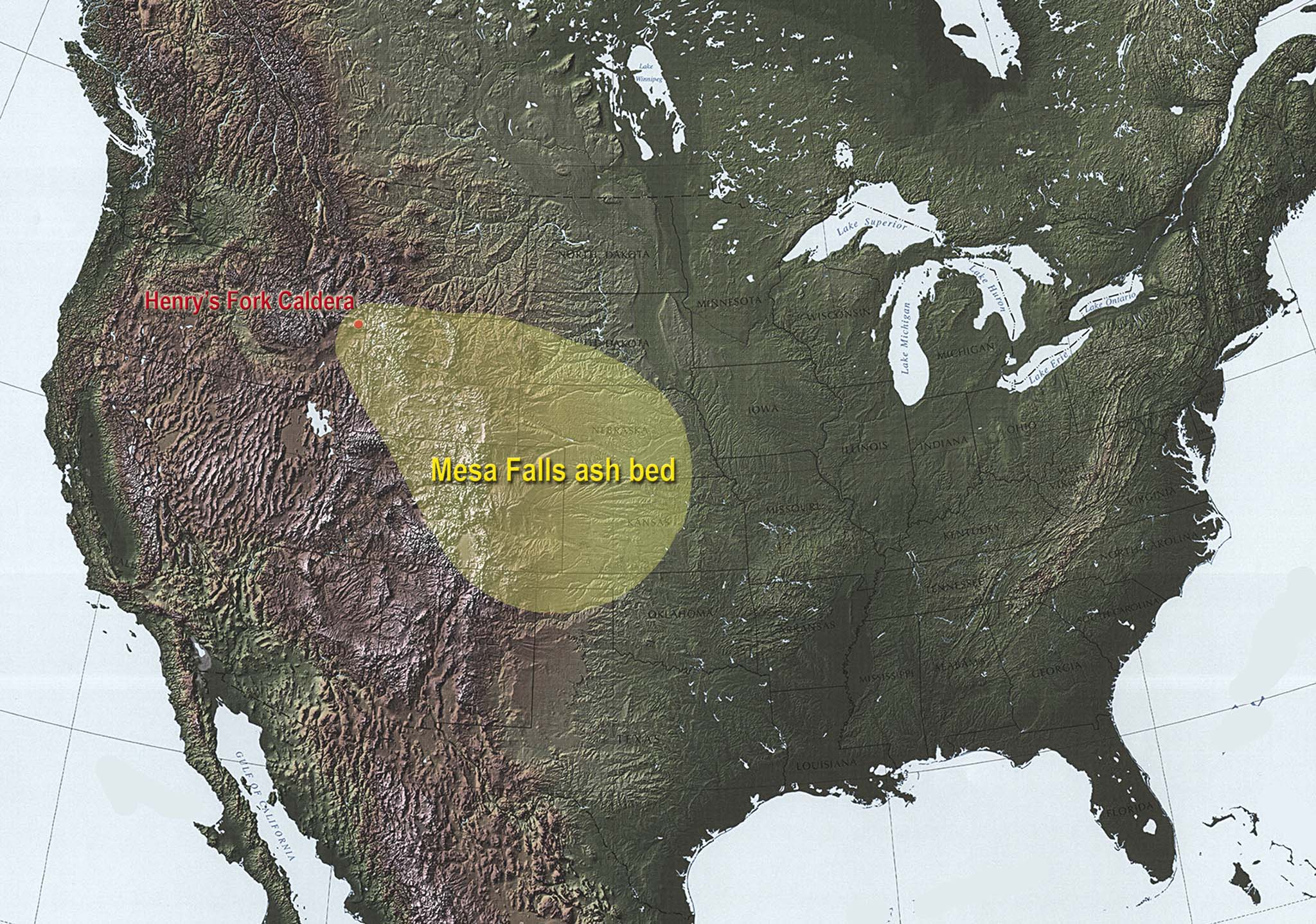 Graphic showing extent of Mesa Falls ash bed.